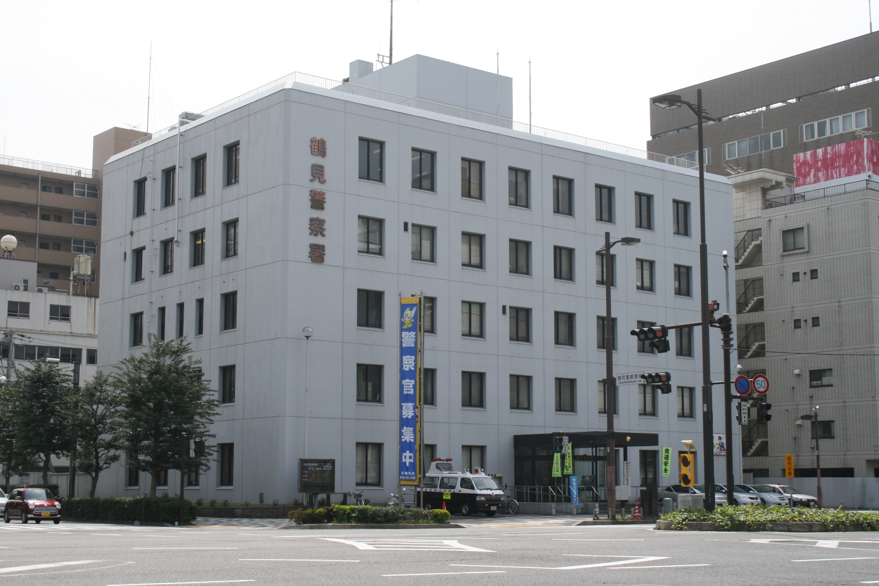 Tsurumi Police Station in Tsurumi-ku, Yokohama, Japan